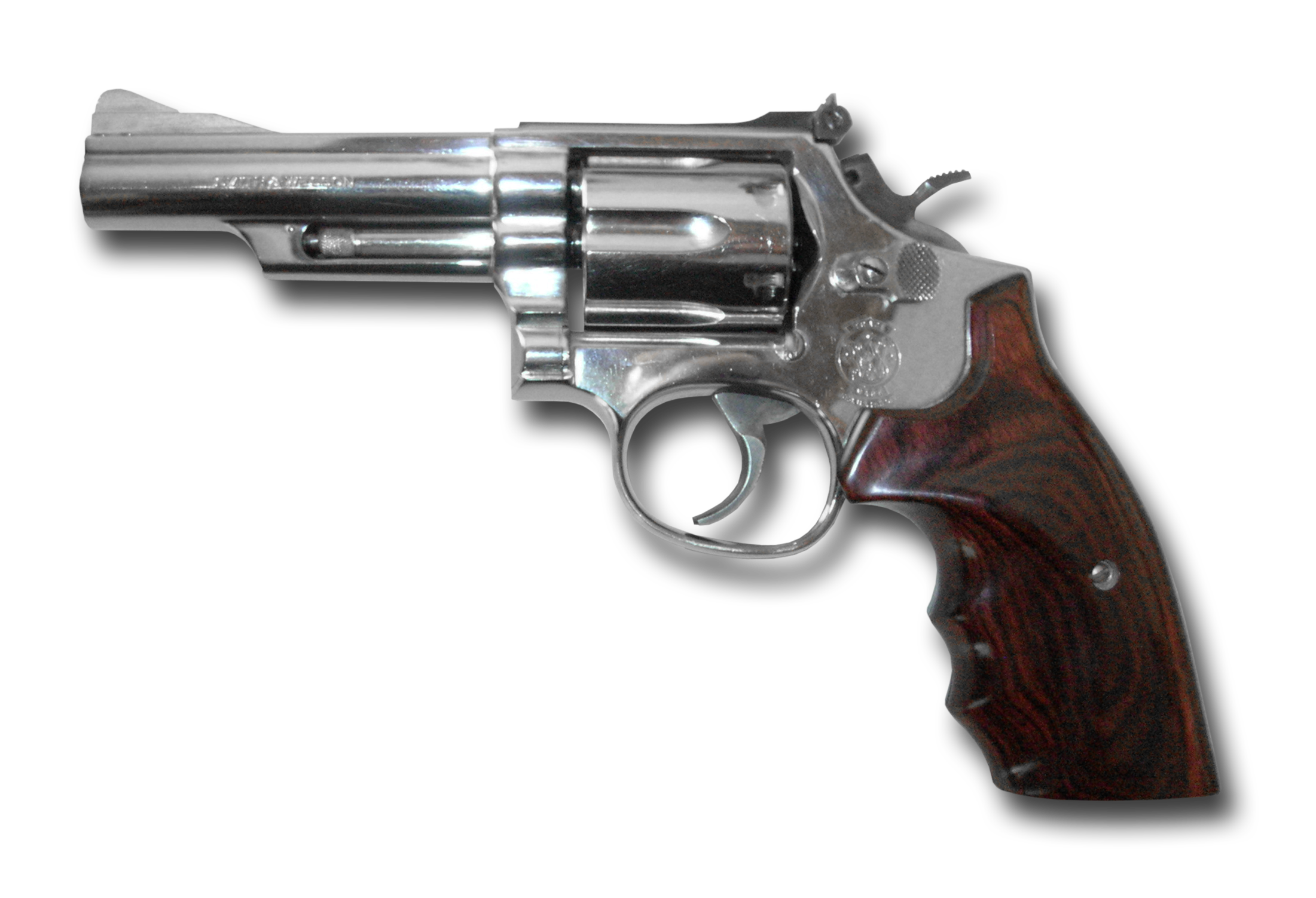 Smith & Wesson Model 19-5 .357 Magnum, 4" Barrel, Polished Nickle plated, Woodgrain square grips